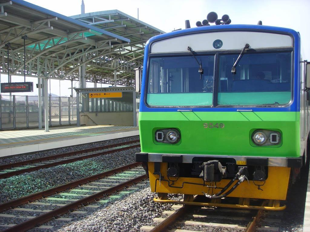 Commuter Diesel Car at Dorasan Station